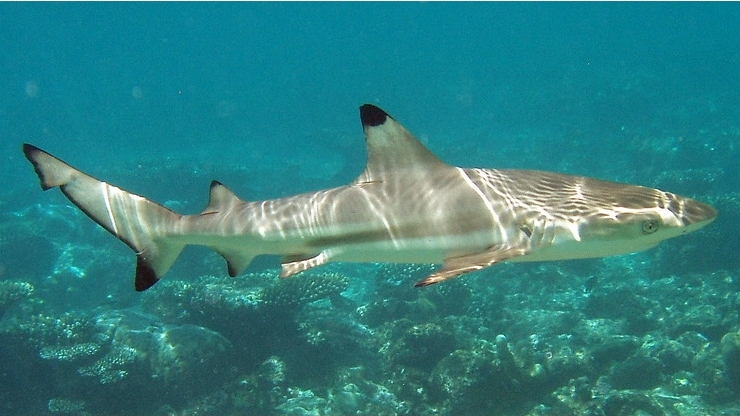 Blacktip reef shark (Carcharhinus melanopterus) at the Mirihi Island Resort, Maldives.